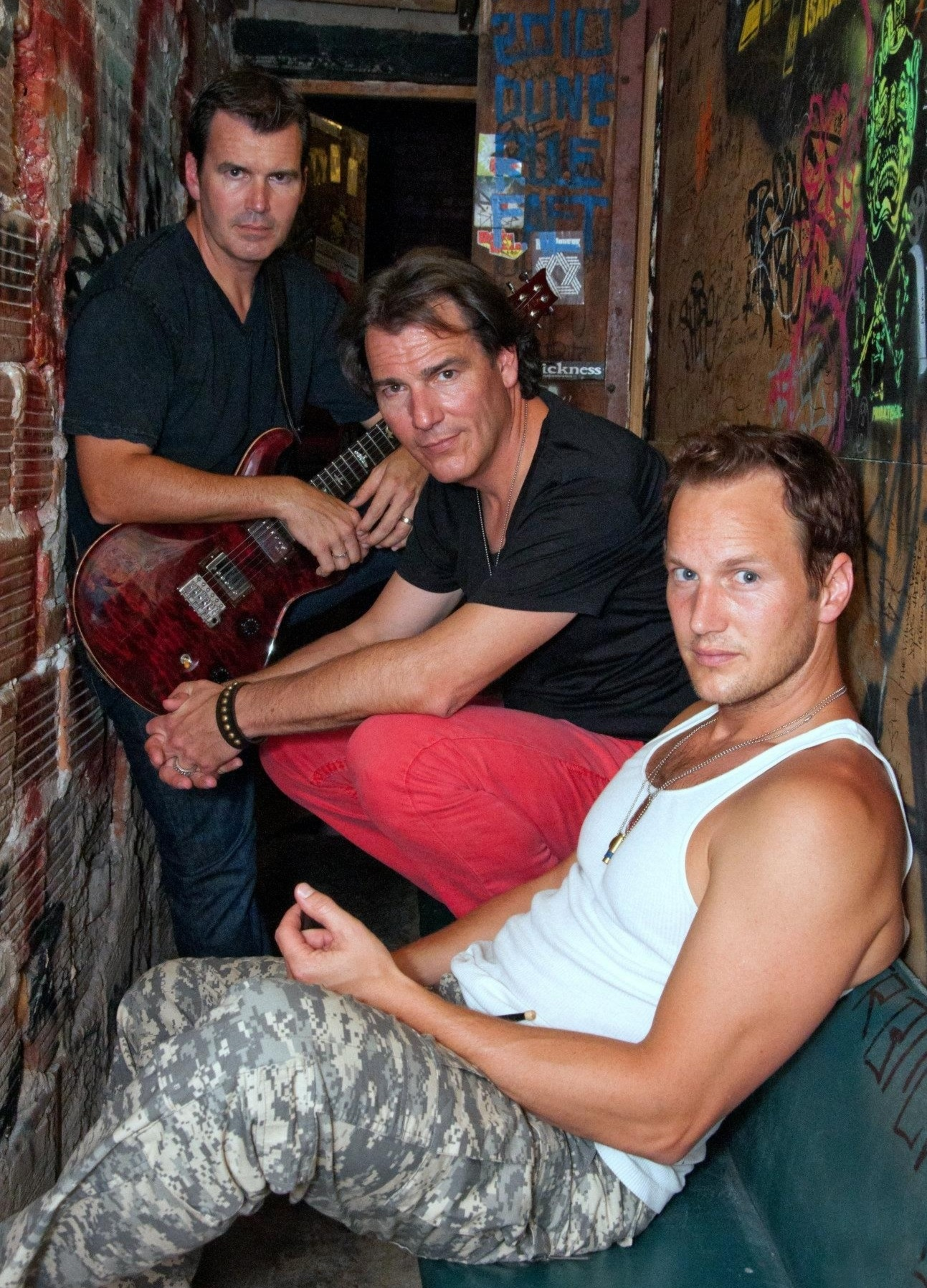 The Wilson Van is made up of brothers Patrick, Mark and Paul Wilson.The group will be performing at Gathering in the Gap in Big Stone Gap, VA in 2015. - AA